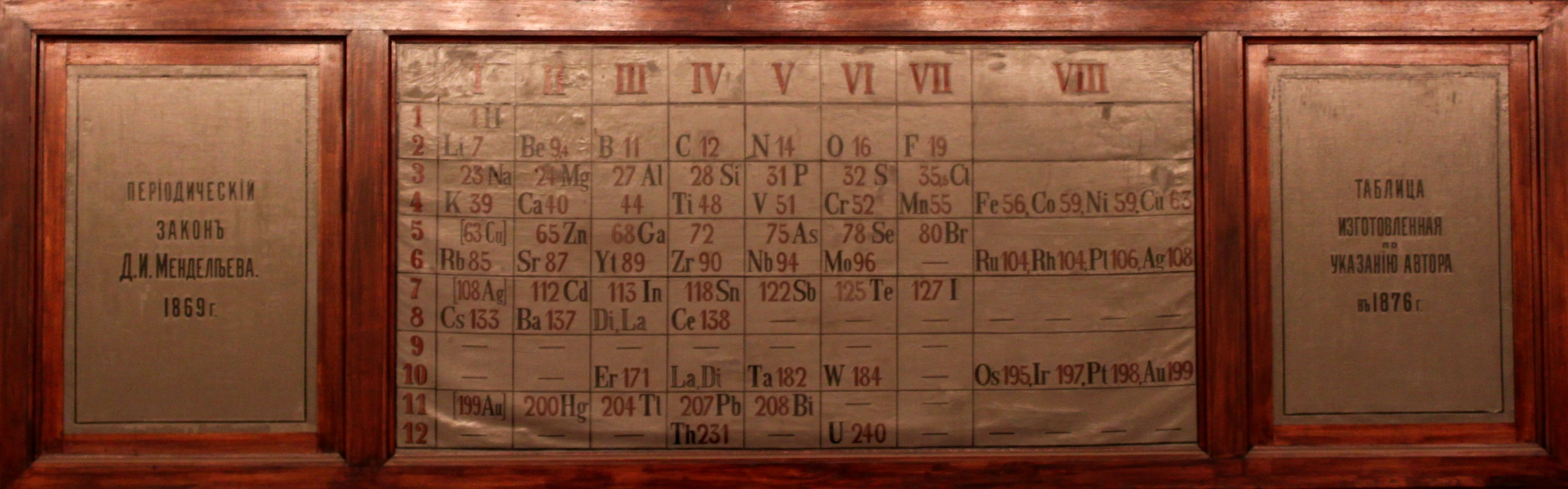 Saint Petersburg State University, Saint Petersburg, Russia